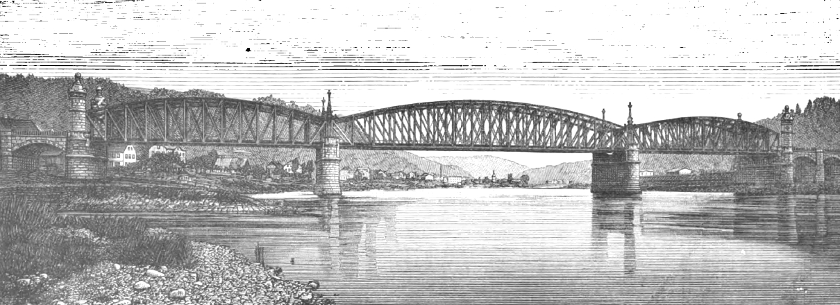 The Carolabrücke is a bridge over the river Elbe in Bad Schandau, built from 1874 to 1877.